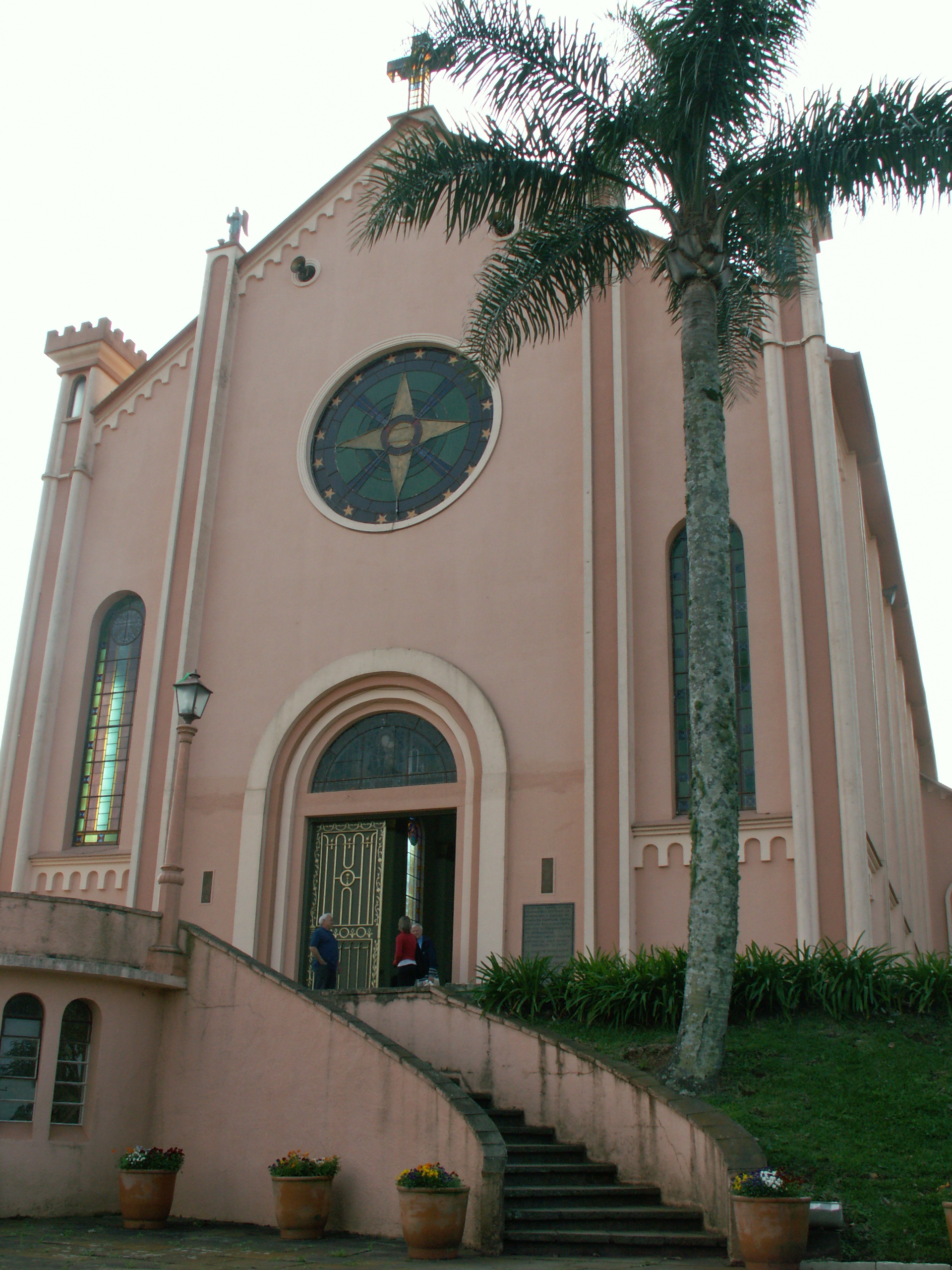 Vila Flores - Igreja